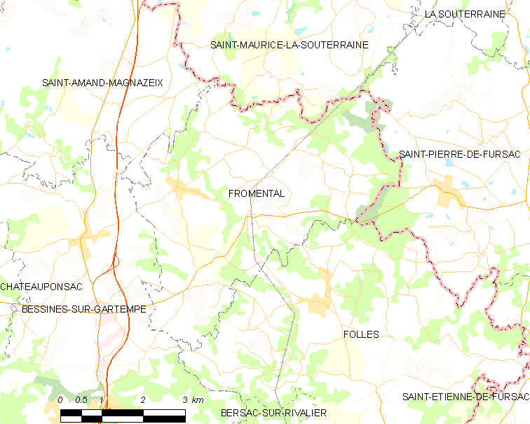 Map of French municipality Fromental